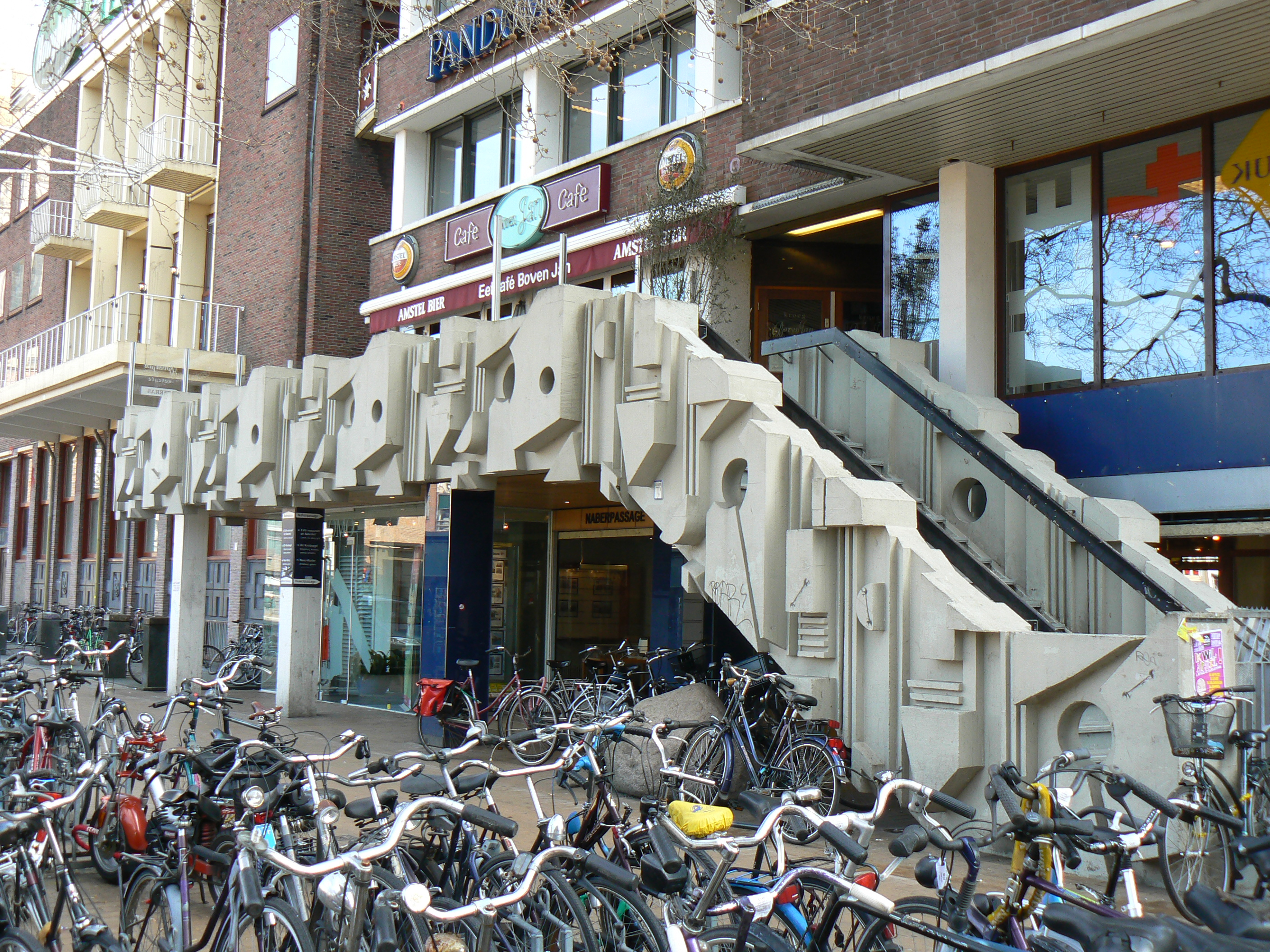 sculptured staircase (1975) by Jan van der Zee in Groningen/The Netherlands